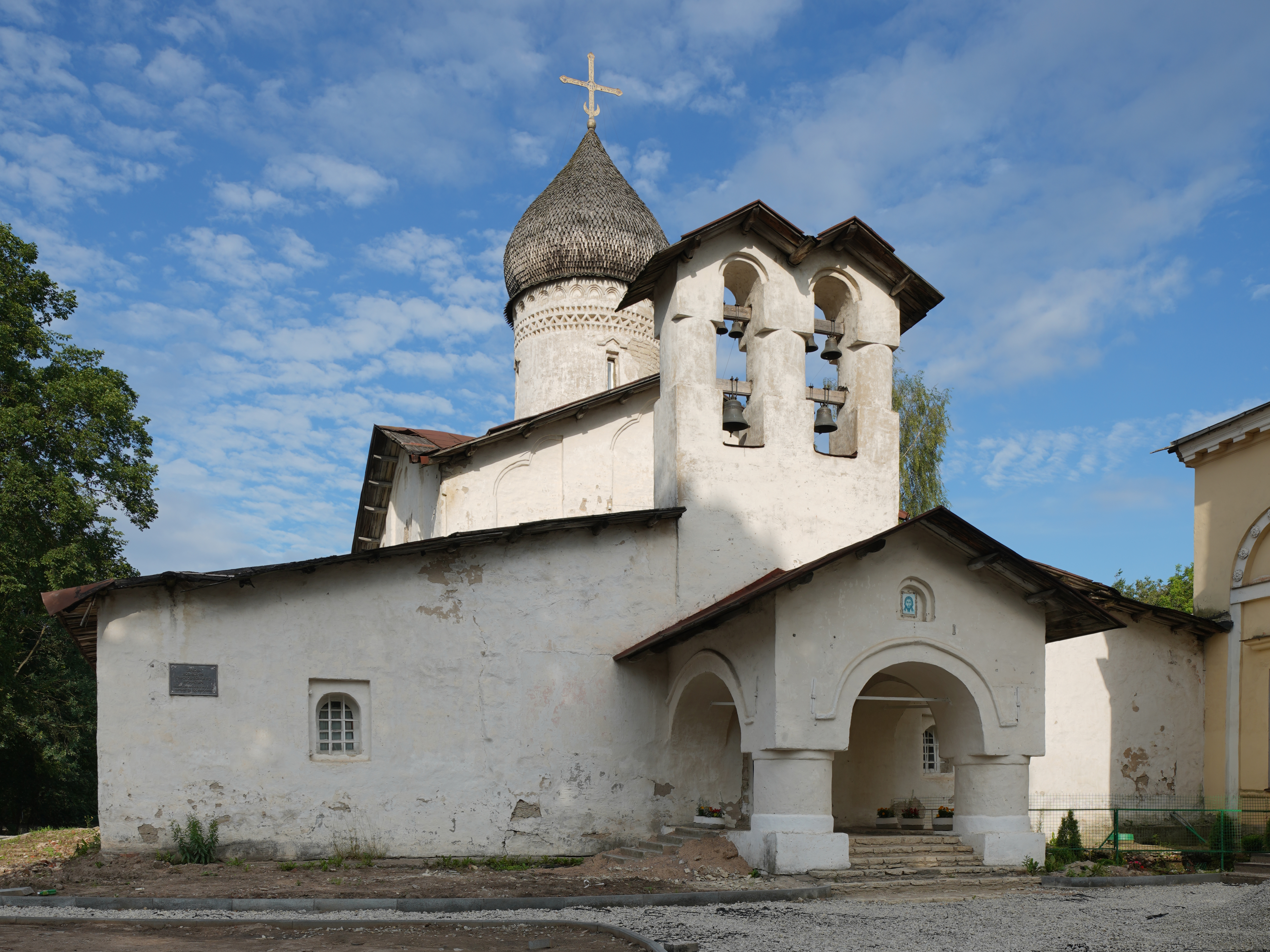 Ensemble of former Old Ascension Monastery in Pskov, Russia